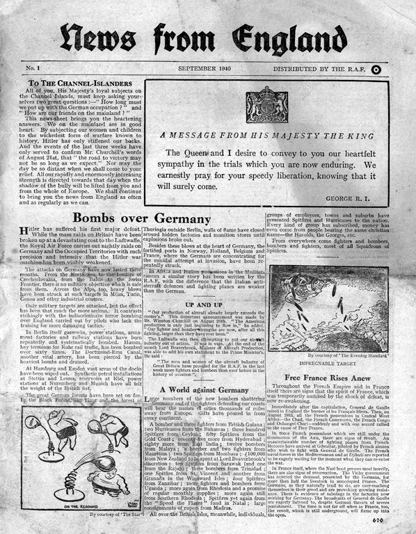 Newspaper for the German-occupied Channel Islands, relating news from England. Dropped by the RAF. (Converted to greyscale and auto white balance using GIMP, still badly stained, would require much more processing...)